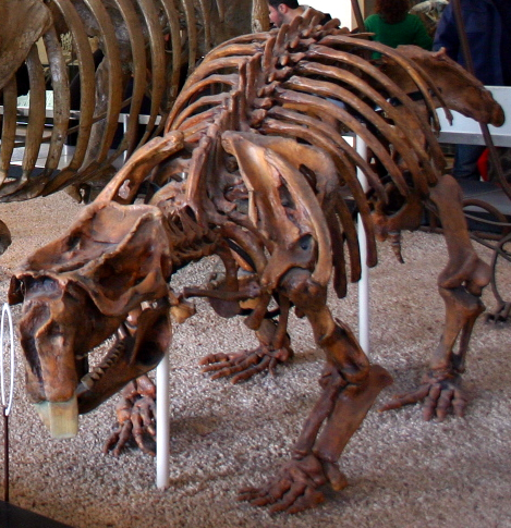 Phascolonus